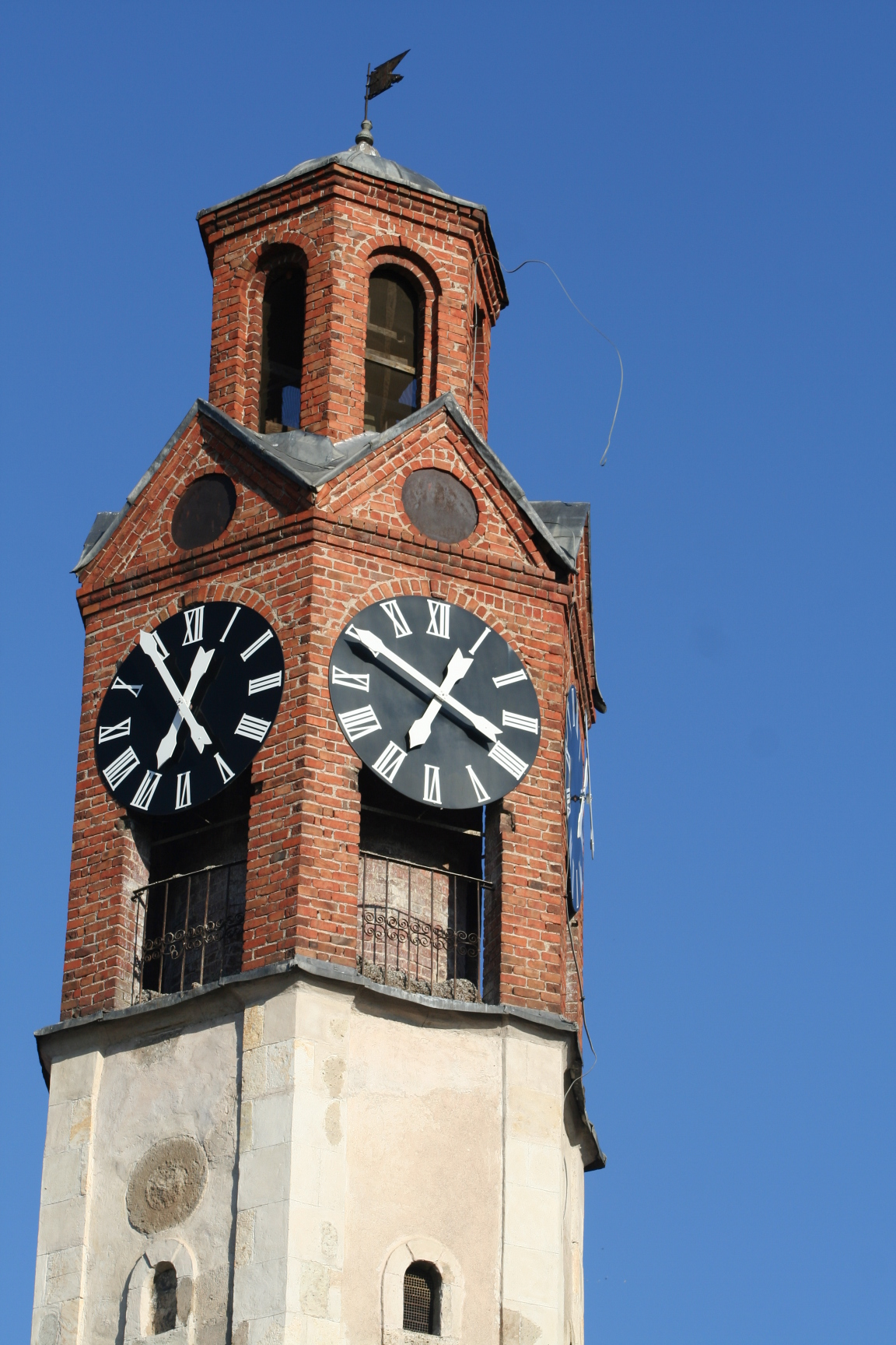 Every market town in the Ottoman Empire needed a clock tower so the faithful knew when to pray and shops could all close and reopen at the same time so that no trader got any advantage from staying open longer. Pristina's 19th century, 26-metre high clock tower looks very similar to the one in Skopje. It was built by Jashar Pasha beside the mosque bearing his name in the centre of the old bazaar area, and was made with sandstone and bricks. The original bell, which originated from Moldova, was stolen in 2001. A new clock was installed with help of the French KFOR troops, and seeing it runs on electricity we were quite surprised that it indicated the correct time on all of its faces when we last checked.